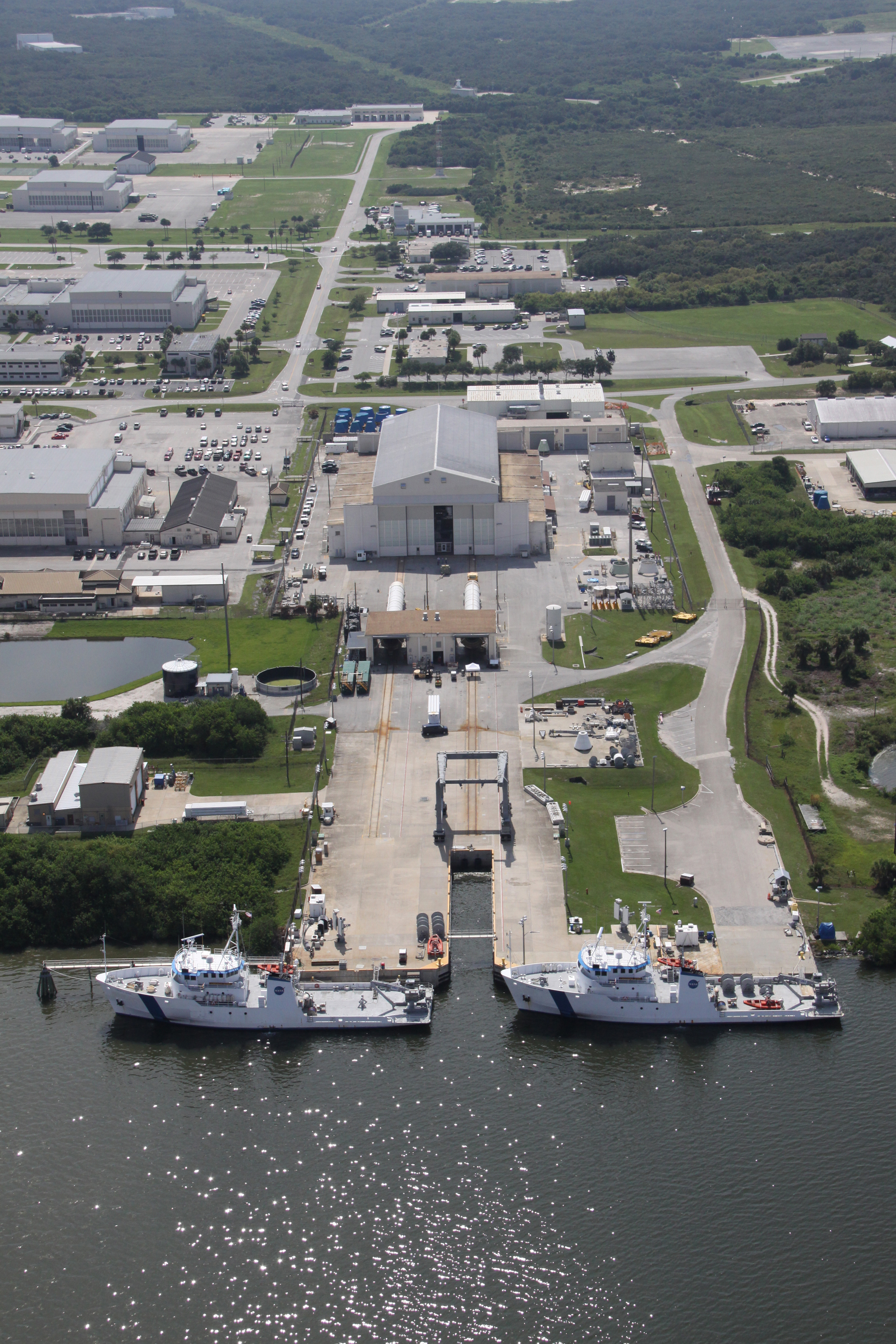 An aerial view of the Solid Rocket Booster Recovery Ships Liberty Star and Freedom Star at Cape Canaveral Air Force Station's Hangar AF. The ships recently returned from recovering the boosters from space shuttle Discovery's launch on the STS-128 mission.